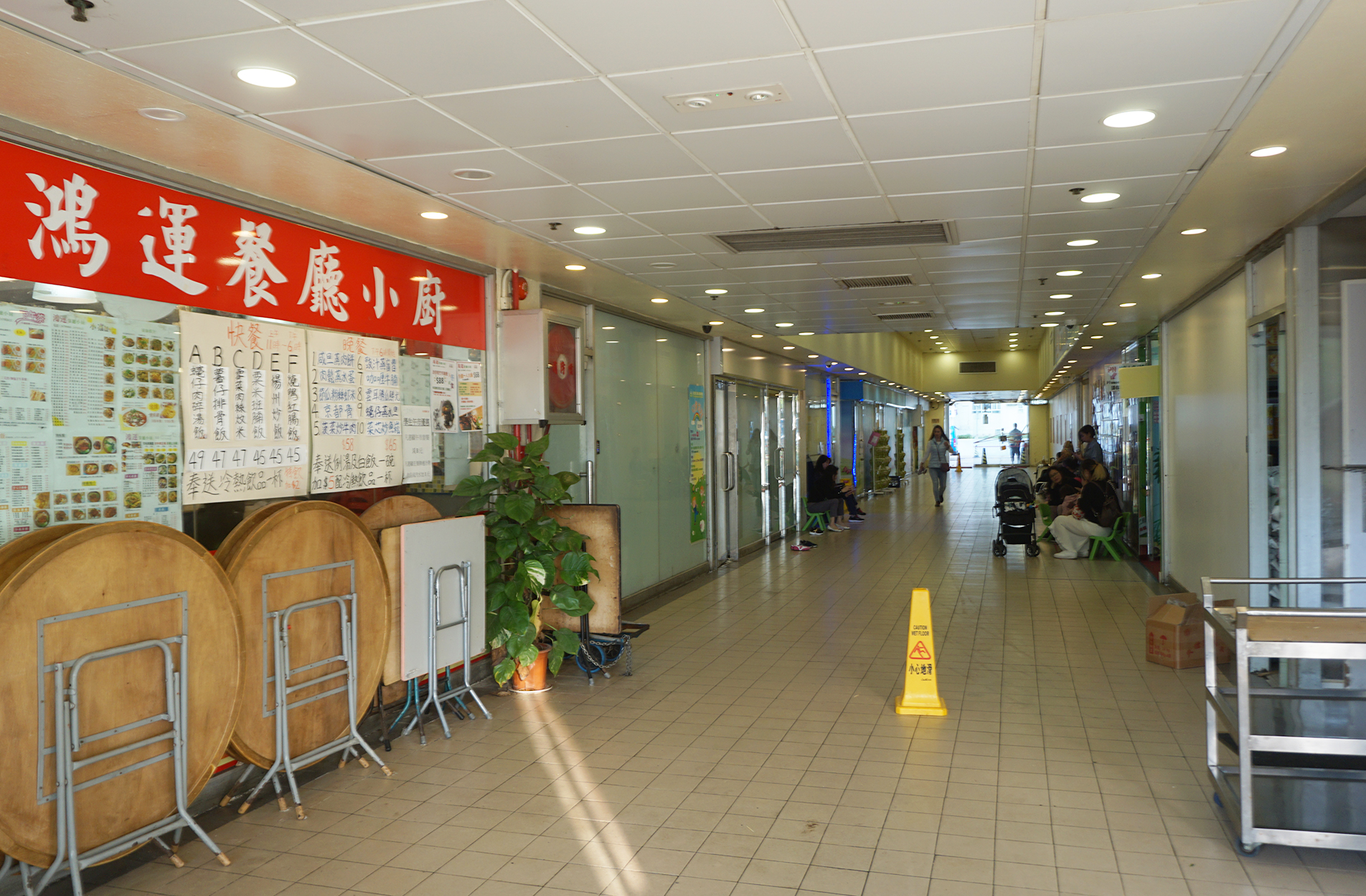 Tsui Lai Garden in Sheung Shui, Hong Kong.